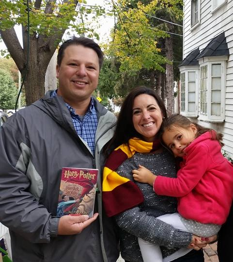 Melissa Murray Bailey promoting reading in Chestnut Hill at the Harry Potter Read-a-thon